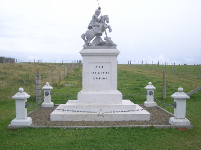 Italian War Memorial, Lamb Holm